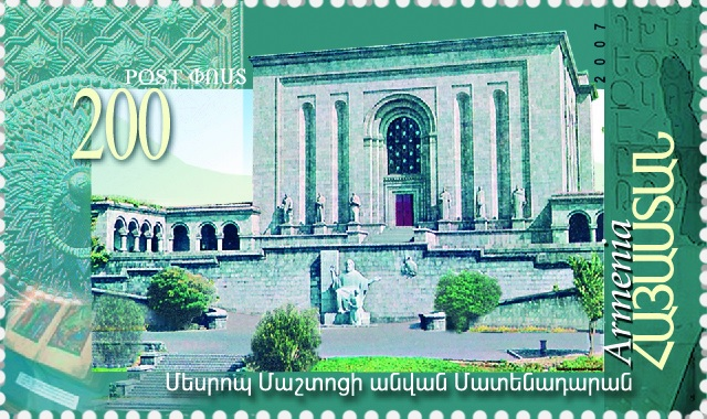 Stamp of Armenia